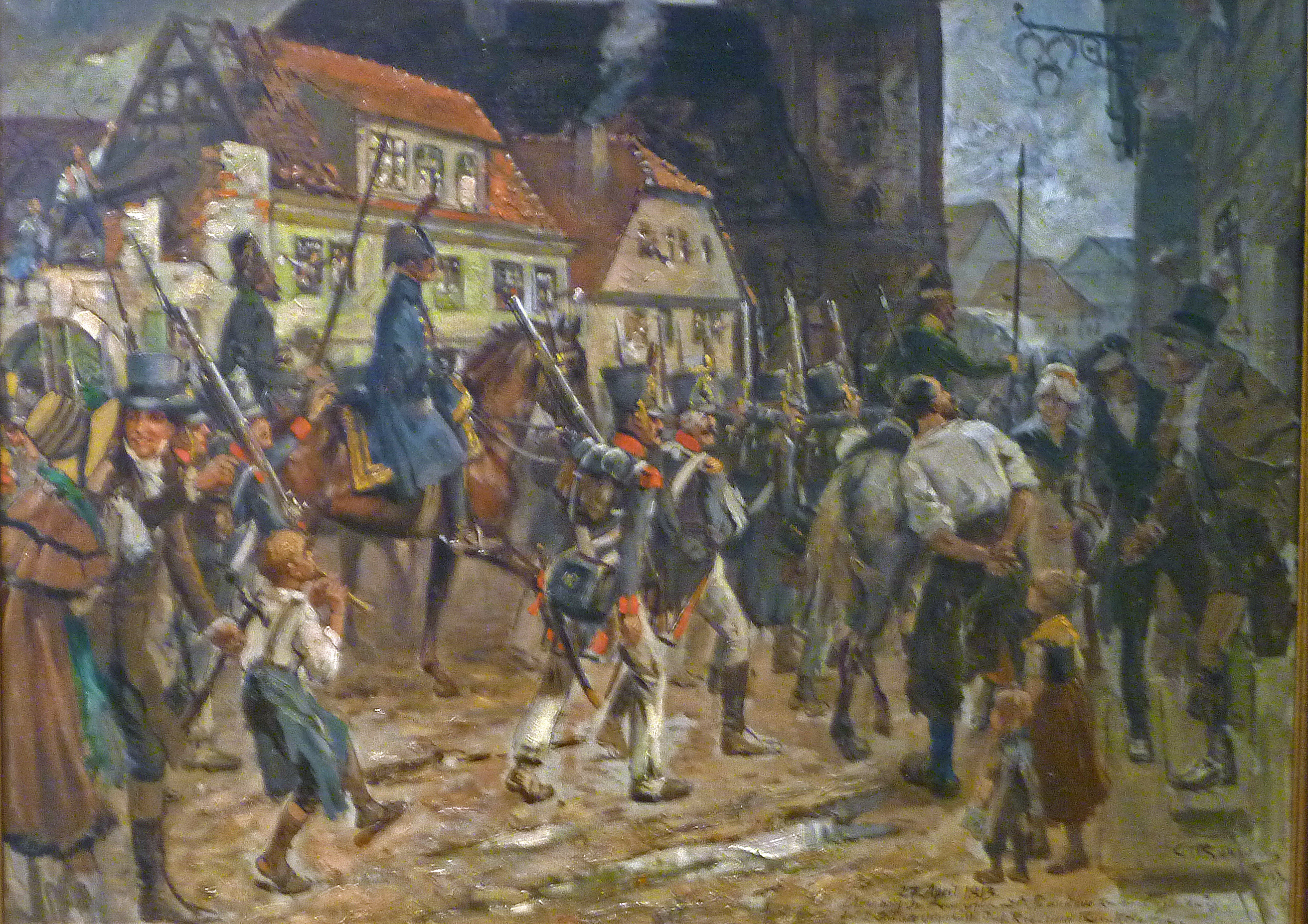 Departure of the French troops from Spandau on 27 April 1813; oil painting (1913) by Carl Röhling (1849-1922); on exhibition in the Spandau Citadel, Spandau, Germany